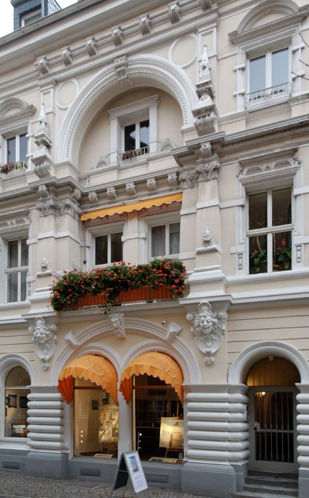 House Lambertusstraße 6 in Düsseldorf-Altstadt, Germany